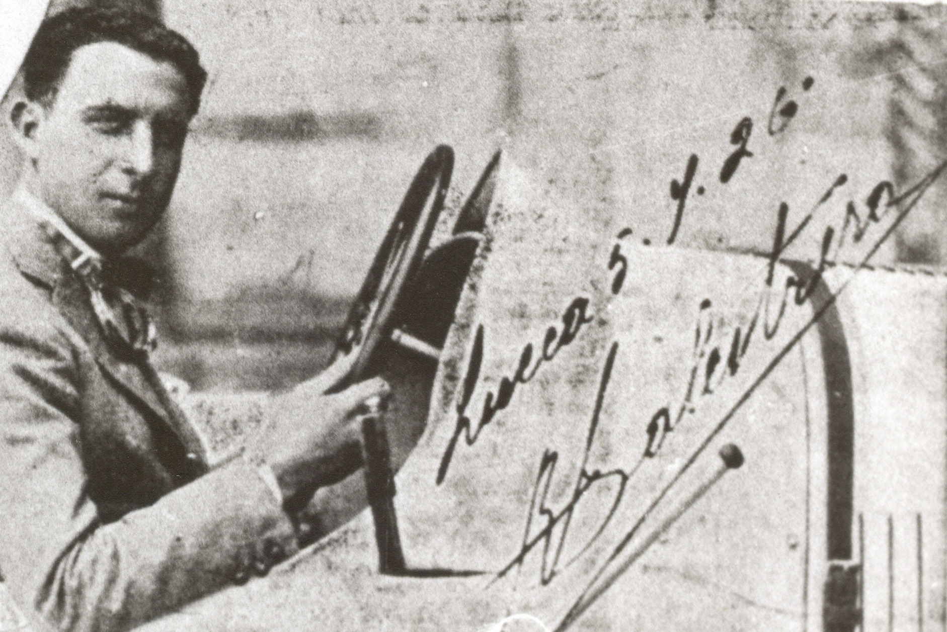 Italian racing driver Renato Balestrero in a Bugatti 35C, that he bought before the 1927 racing season. Written on the picture: "Lucca, 5.4.26". Balestrero resided in Lucca.